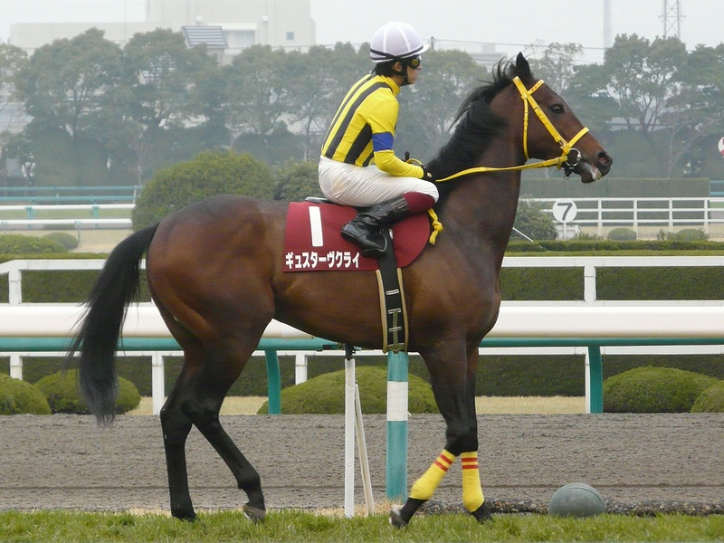 Gustave-cry20120318(1)